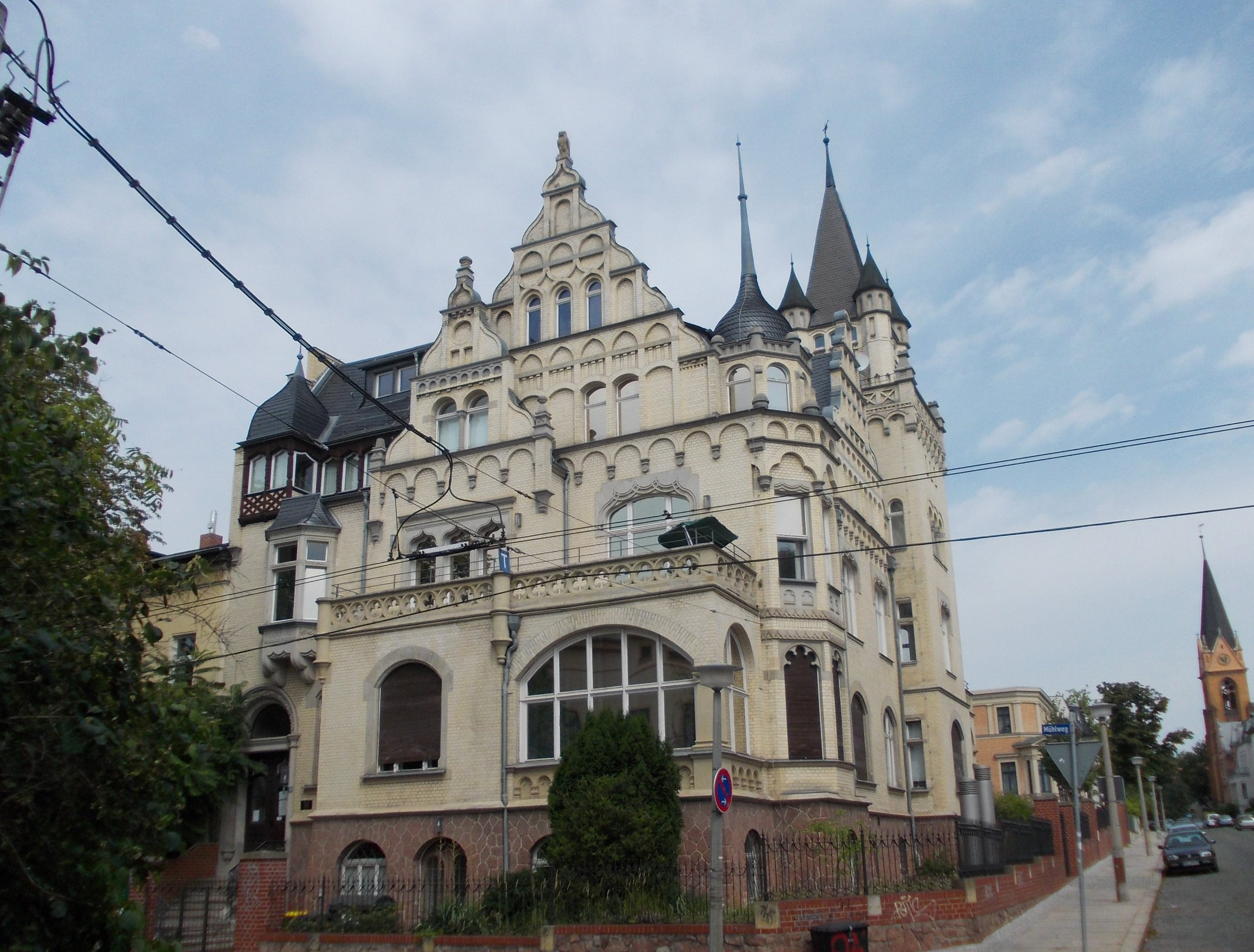 Villa Kaehne, No. 15 at Mühlweg in Halle/Saale (Saxony-Anhalt), now Oriental Institute of the University of Halle